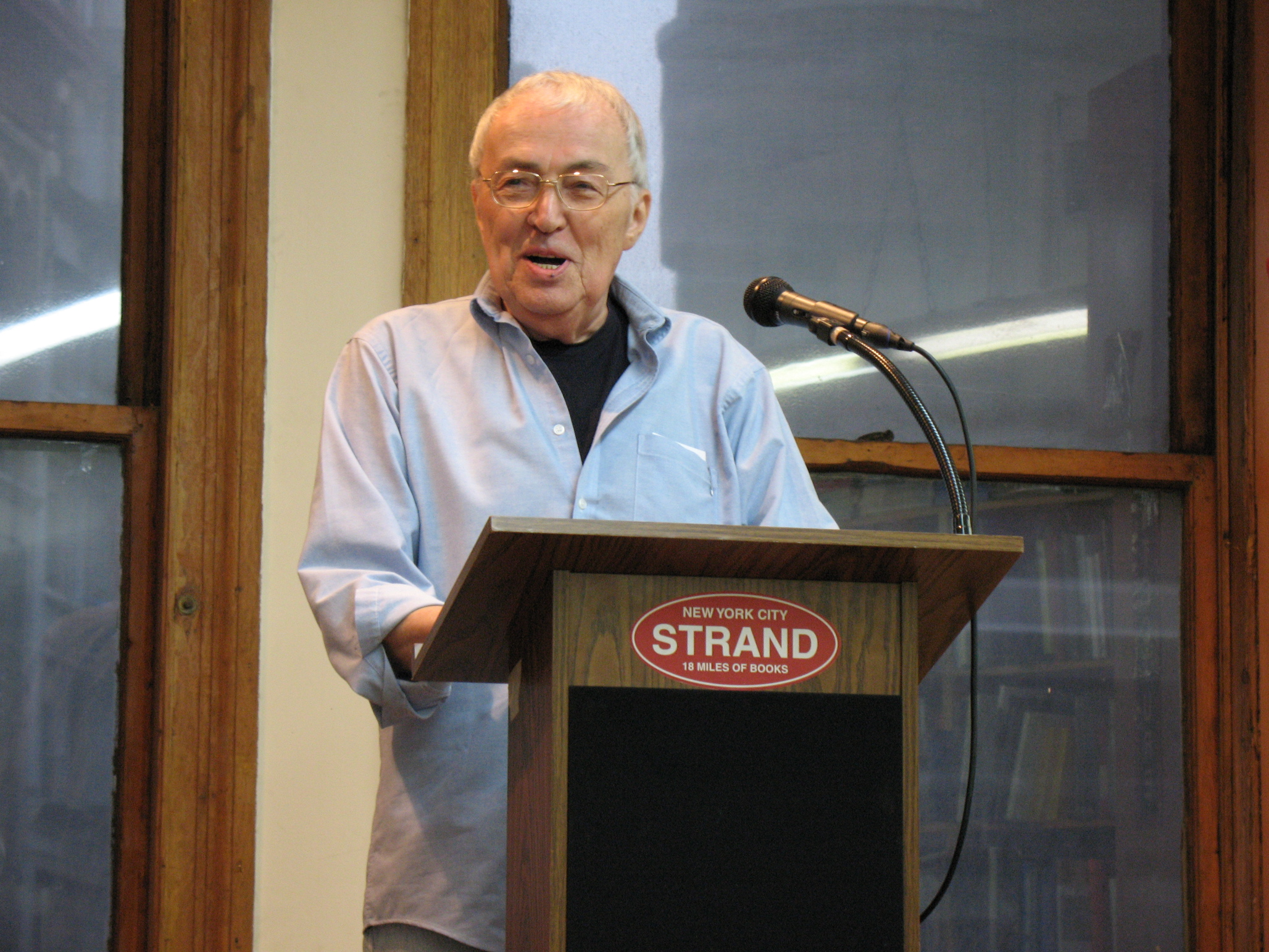 David Markson reading at The Strand in New York City on September 5, 2007.